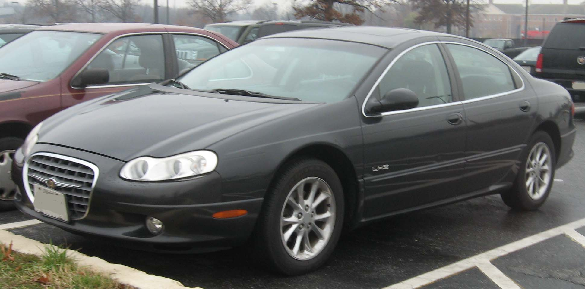 Chrysler LHS photographed in College Park, Maryland, USA.